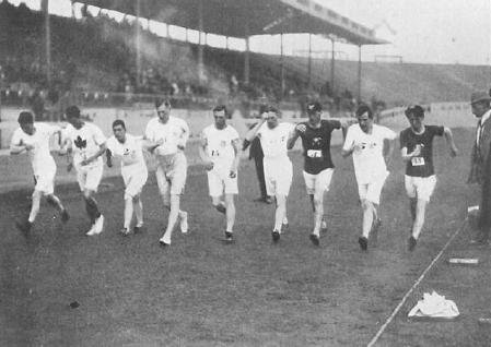 Start of the 3500 metre walk at the 1908 Summer Olympics